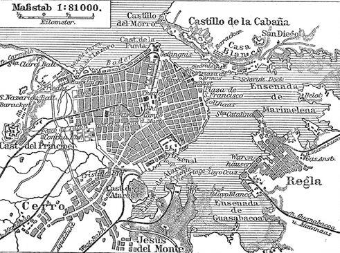 Map of Havana, Cuba (1888), showing 3 harbors.